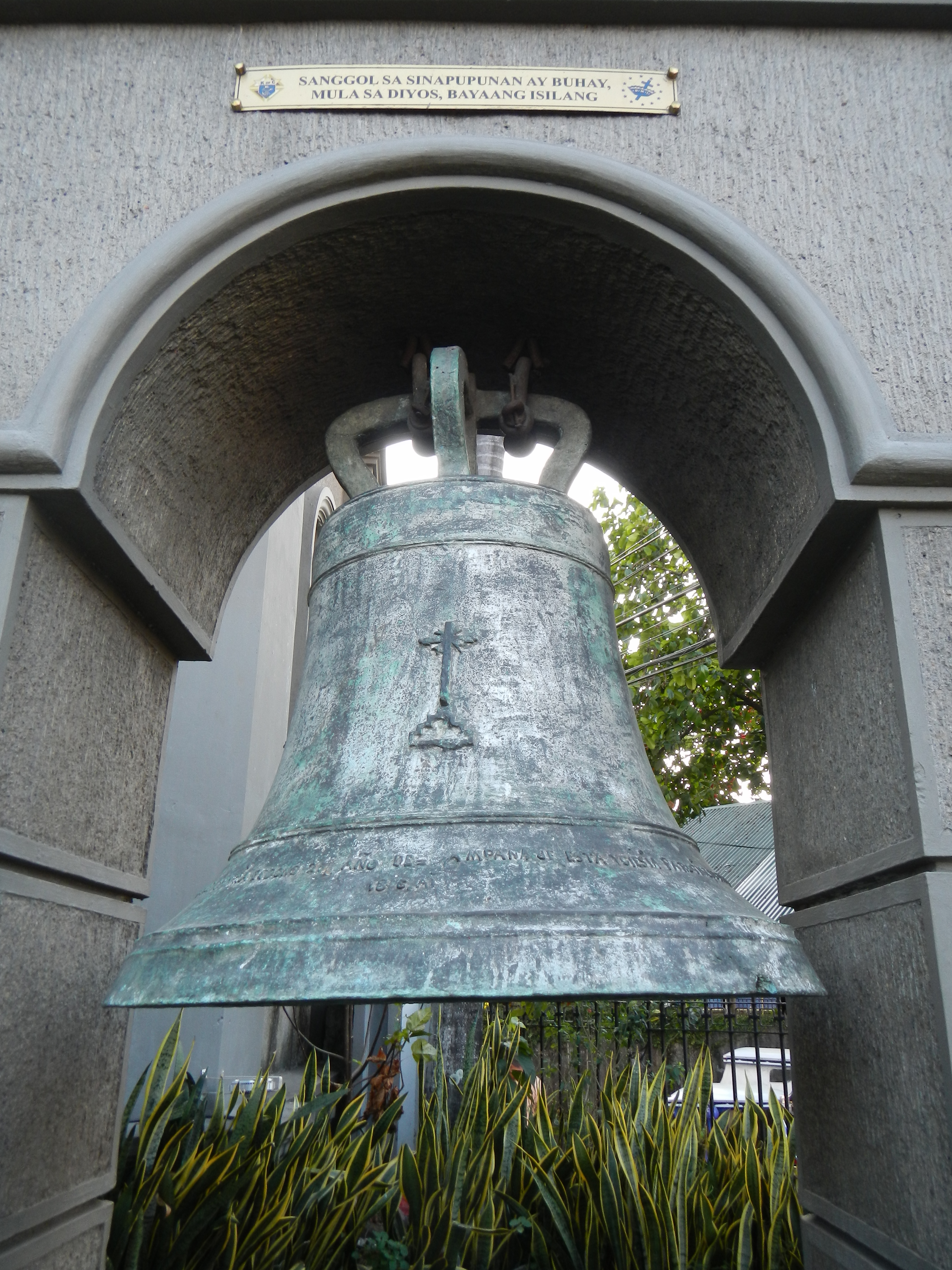 Orani Church - Our Lady of the Most Holy Rosary Parish Church (Nuestra Señora del Rosario Parish Church / Orani Church / Church of Orani)[1]II. Vicariate of St. Dominic de Guzman, Roman Catholic Diocese of Balanga[2][3] [4][5]Diocese of Balanga(Dioecesis Balangensis) Suffragan of San Fernando, Pampanga Created: March 17, 1975. Canonically Erected: November 7, 1975. Comprises the whole civil province of Bataan. Titular: St. Joseph, Husband of Mary, April 28. Bishop Most Reverend Ruperto Cruz Santos, DD[6][7] Parish Priest, Fr. Santos S. Detablan, assisted by Fr. Jesus R. Navoa, Catholic population, 33, 957[8] Church of Orani - Orani became an independent missionary center in 1714. The church and convent of Orani, repaired in 1792 and 1836, were badly damaged by the earthquake of September 16, 1852. They were built and improved under the supervision of the Rev. Bartolome Alvarez del Manzano, O.P. in 1891. They were destroyed by fire on March 16, 1938 which razed about three fourths of Orani including the town hall, the Tercena, former Bataan High School and later Orani Elementary School building. The church was reconstructed in September 1938. [9] Bataan (Region III) House of Worship Status: Level II - With Marker Marker Date: 1939 Site Orani church façade,Orani, Bataan installed by Historical Research and Markers Committee[10]Coordinates: 14°48'2"N 120°32'8"E Orani, 2112 Bataan[11][12]